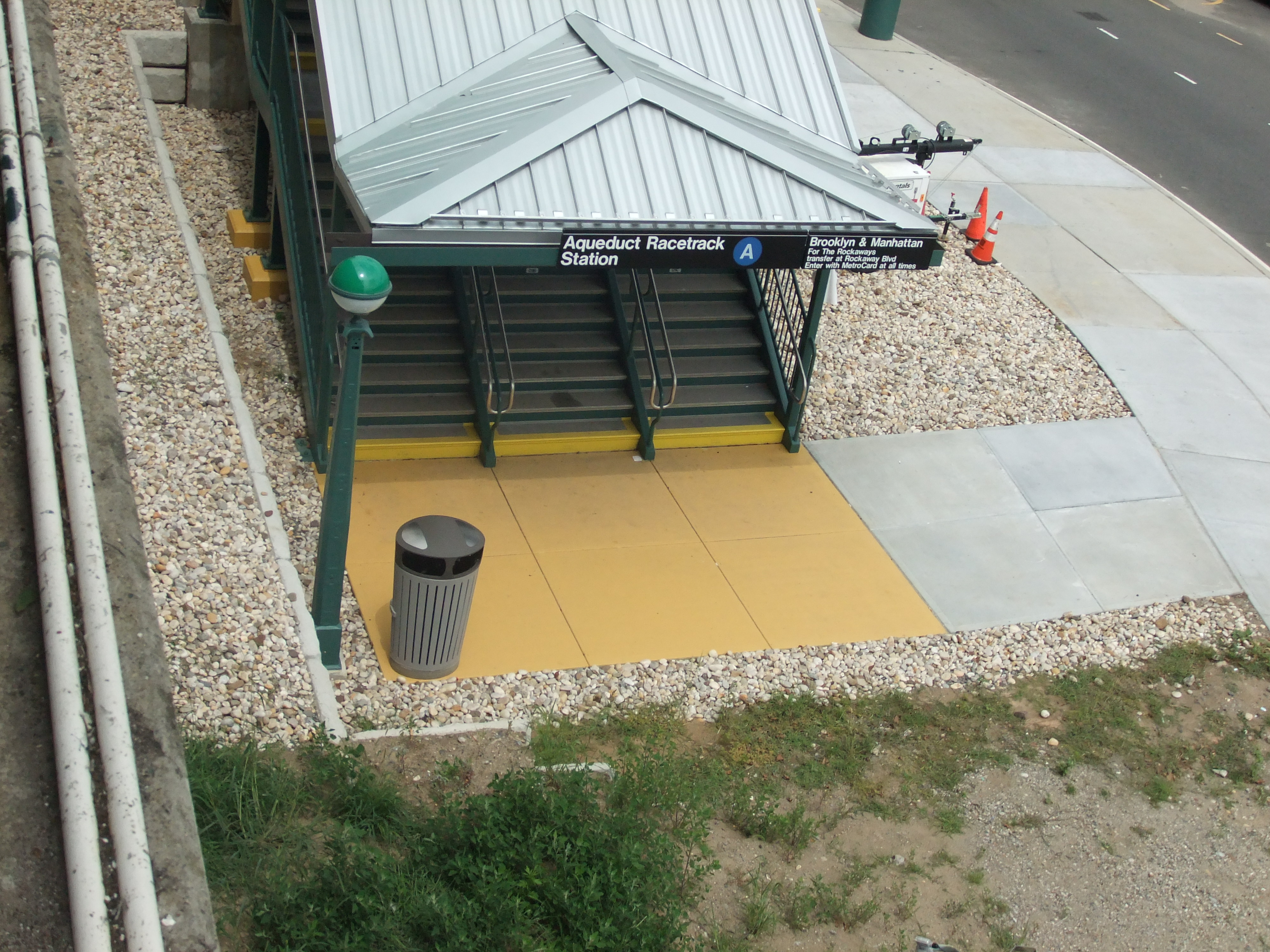 Entrance to Aqueduct Racetrack station from platform